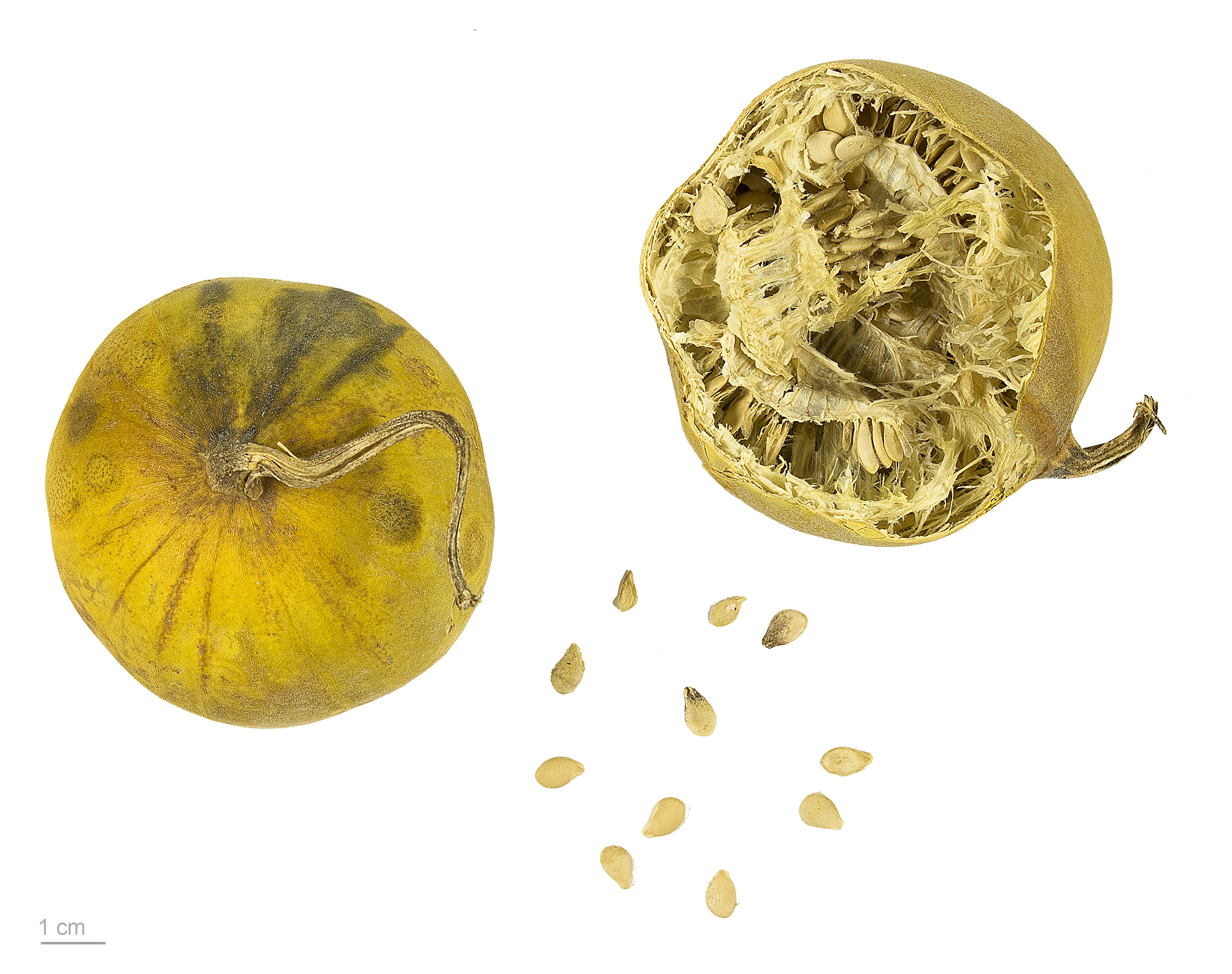 Cucurbita palmata, coyote melon, coyote gourd, fruits and seeds